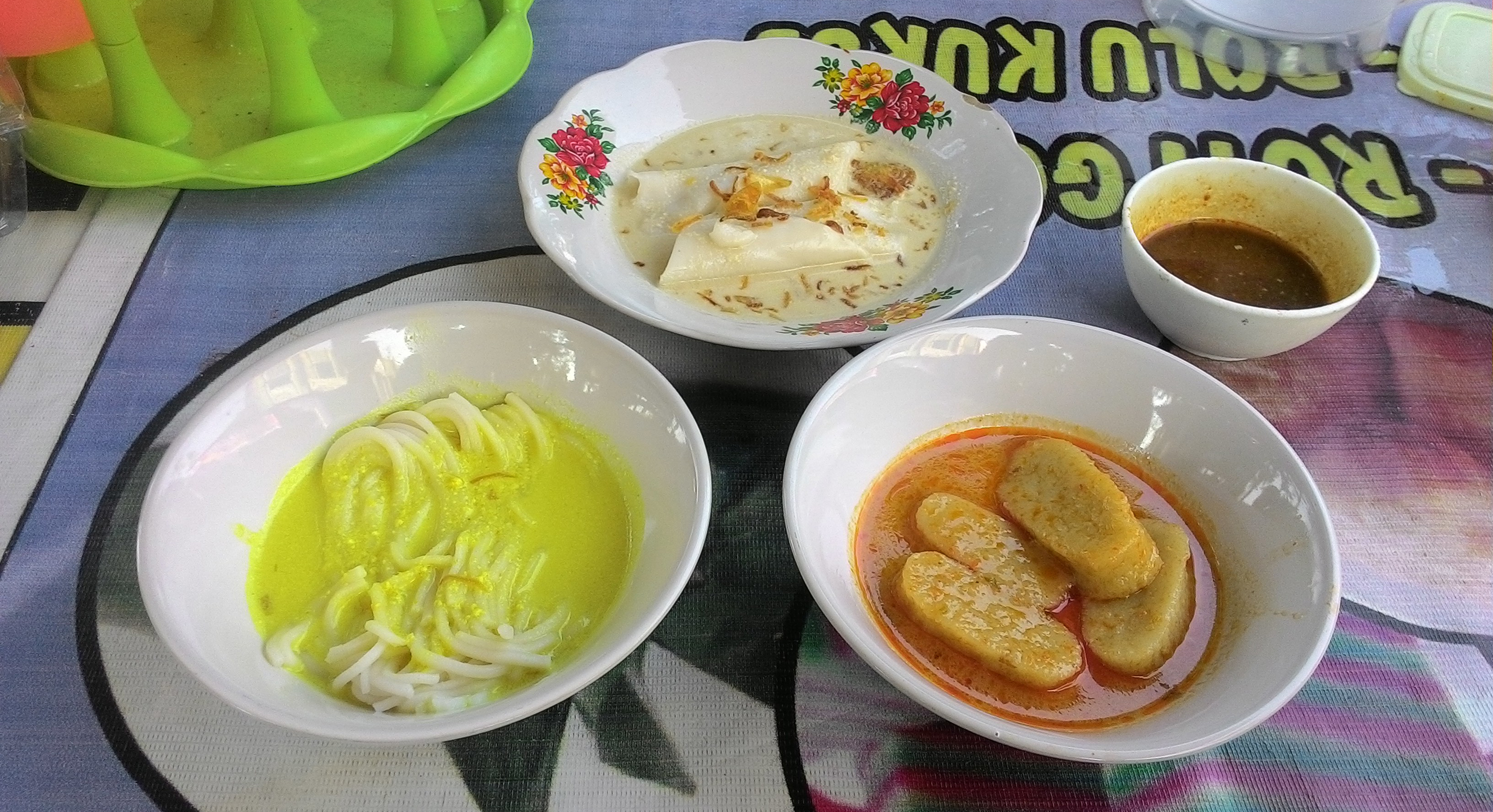 From left to right clockwise: Lakso, Burgo, and Laksan. Lakso is thick rice noodles in yellow turmeric coconut milk soup. Burgo is folded rice pancake served in withish coconut milk soup with sprinkles of fried shallots. Laksan is slices of fishcake (similar to pempek) served in spicy reddish curry-like soup. Small bowl is sambal buah, spicy fruit sambal chili sauce. Specialty of Palembang cuisine, South Sumatra, Indonesia.